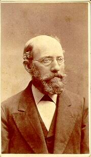 Clemens Vonnegut Sr. (1824-1905), photographed c.1885, born in Munster in Westphalia, was a tax-collector for the Duke of Westphalia and prominent Indianapolis, Indiana businessmen and founder of Vollmer & Vonnegut, later the Vonnegut Hardware Company.